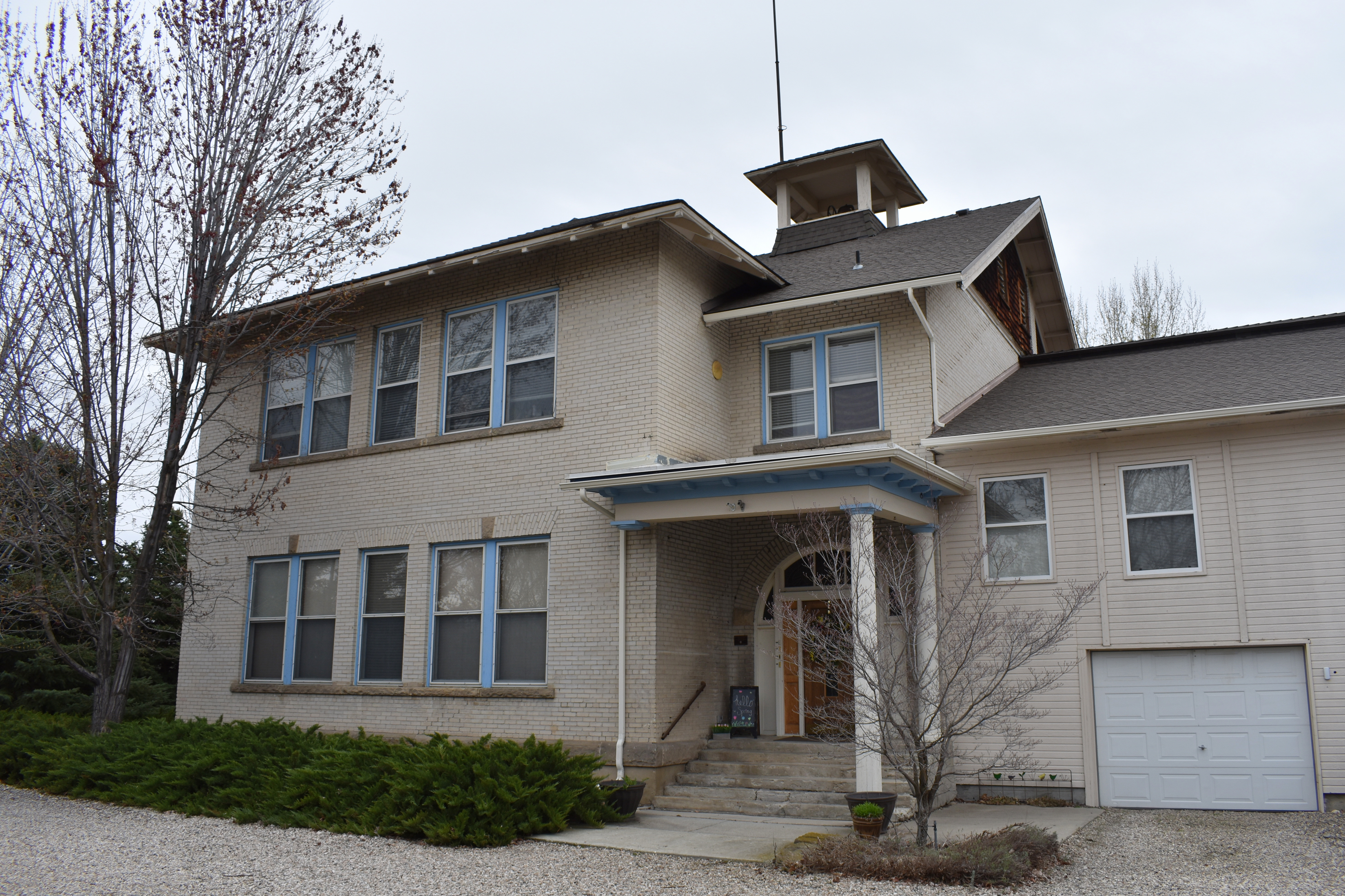 Ustick School (1909) in Boise, Idaho, is listed on the National Register of Historic Places. The school was constructed in the former town of Ustick, Idaho, now a neighborhood in Boise.